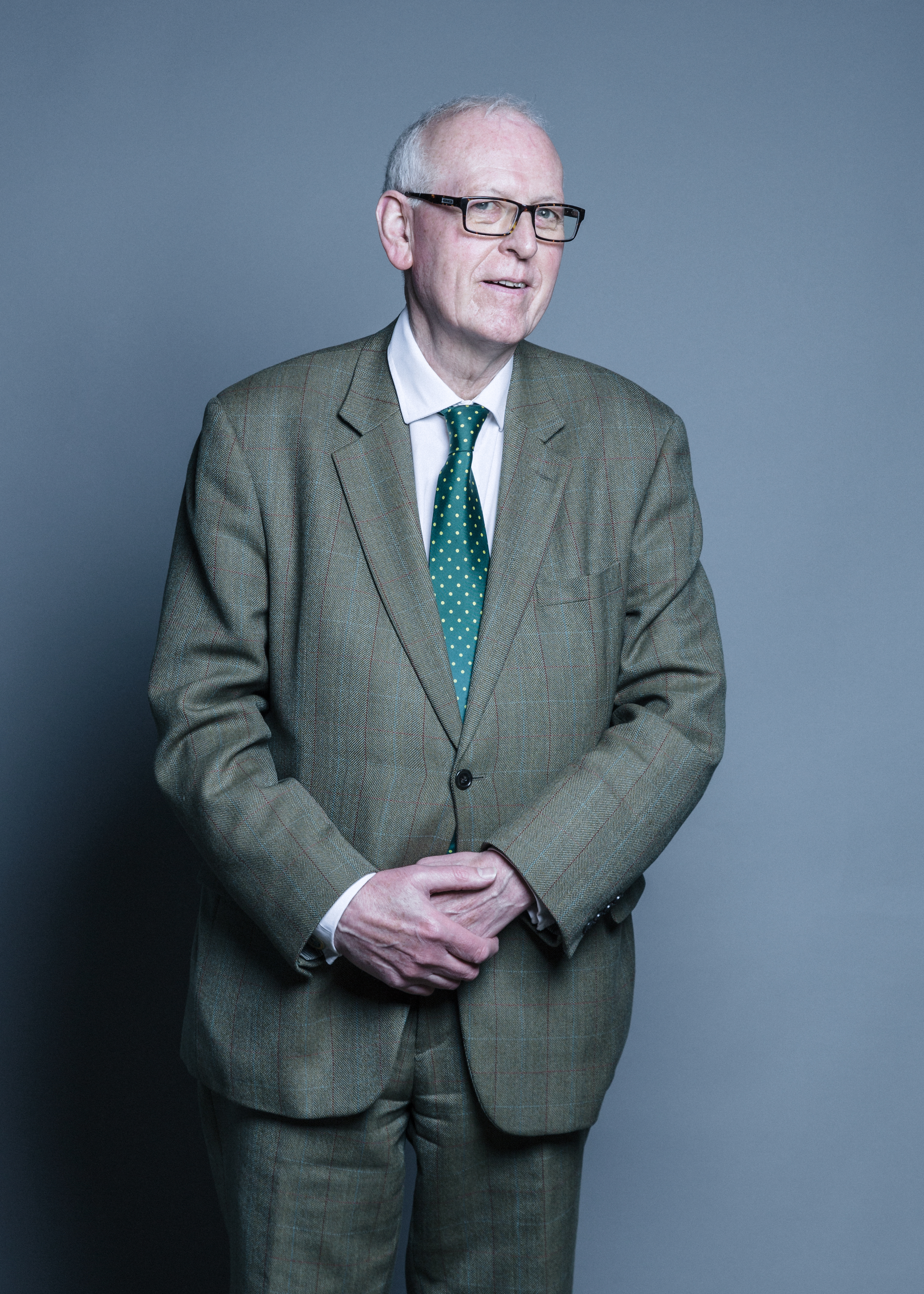 Official portrait of Lord Hennessy of Nympsfield